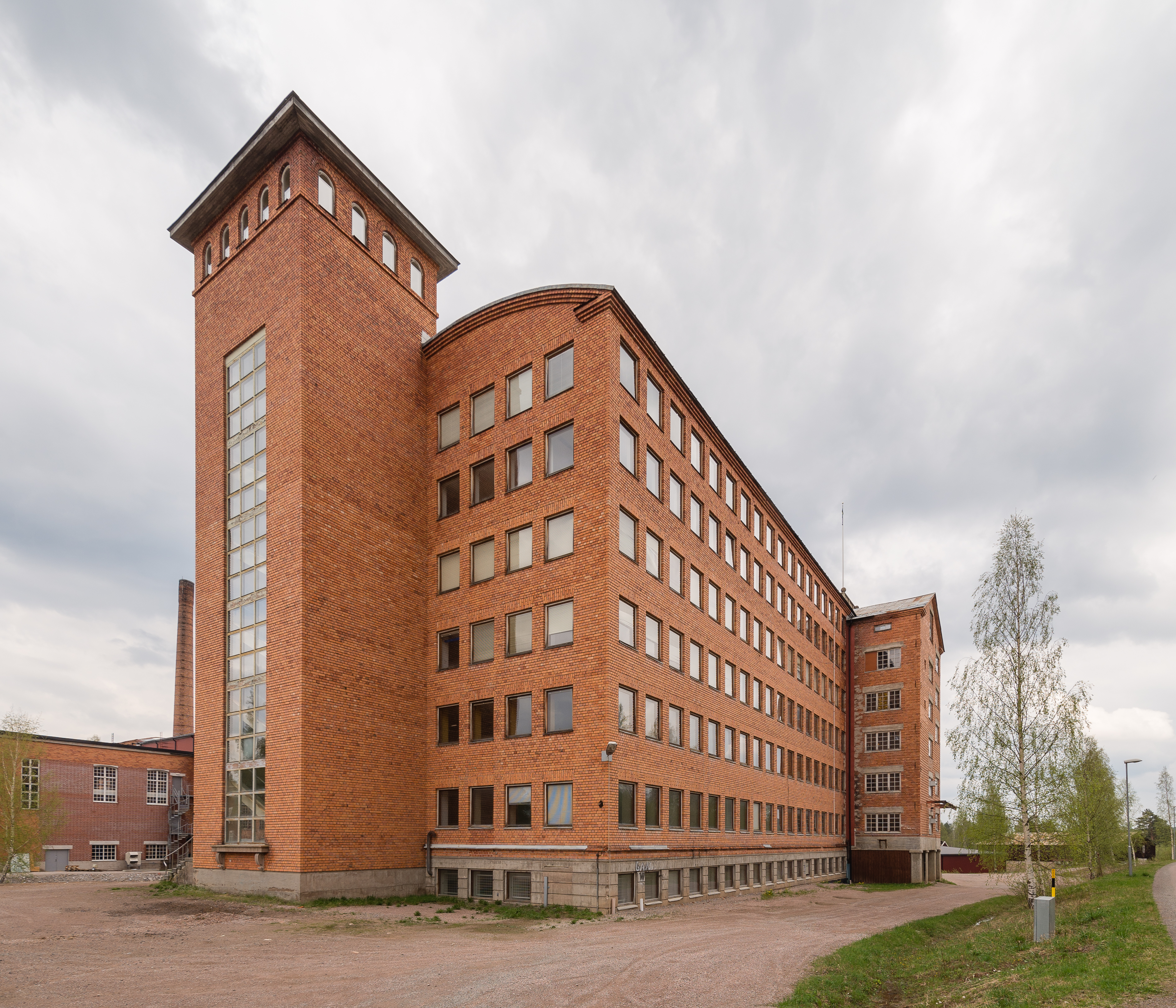 Tidstrands Yllefabriker is a former woollen mill in Sågmyra, Leksand.